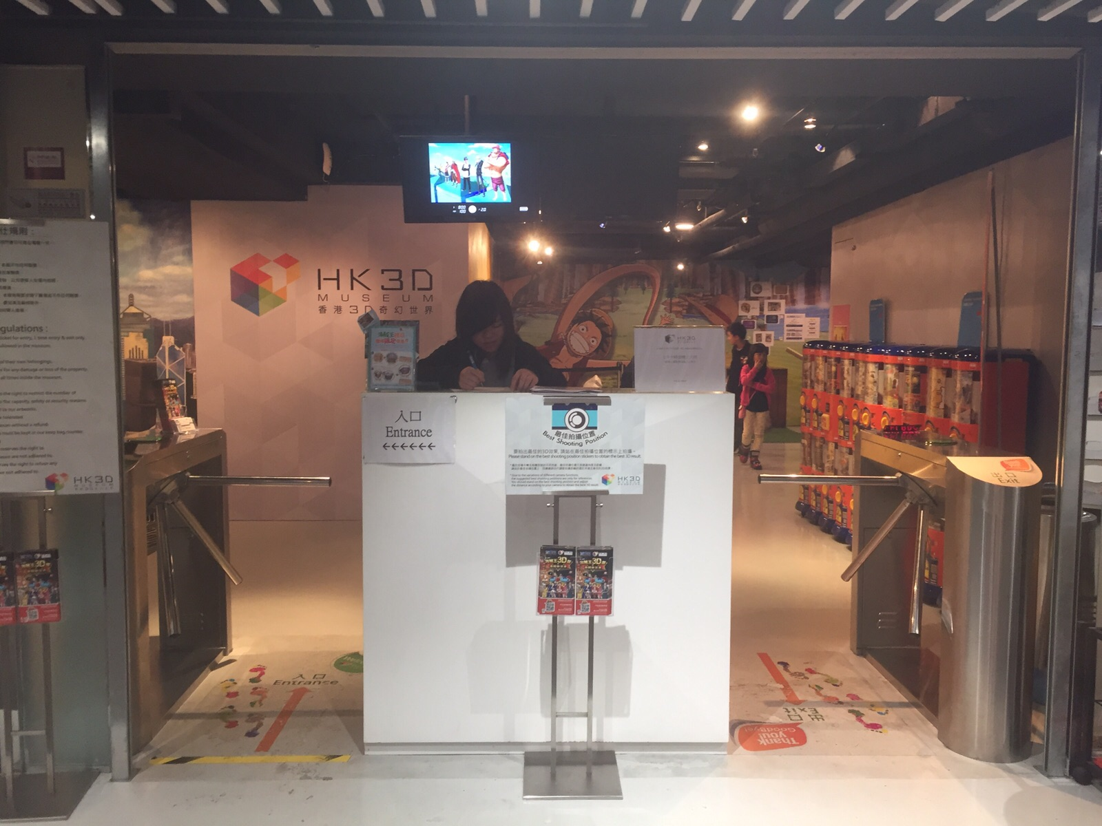 HK3DM Entrance